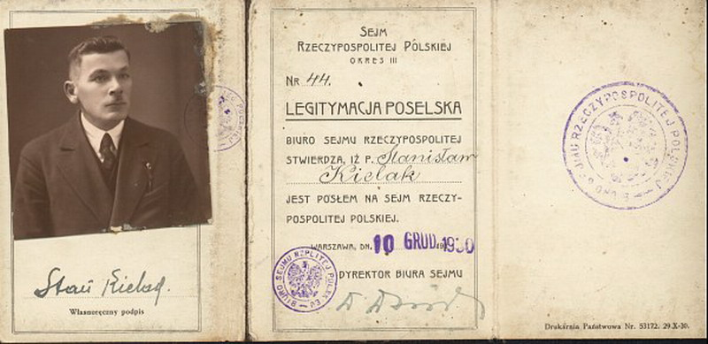 Polish Parliament identity card of deputy Stanislaw Kielak (1930)